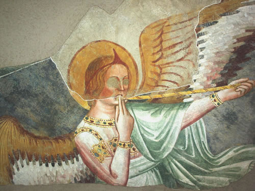 Matris Domini Monastery Native nameMonastero Matris DominiLocationBergamo, Lombardy, ItalyCoordinates45° 42′ 03.94″ N, 9° 40′ 00.75″ E Established13th century date QS:P,+1250-00-00T00:00:00Z/7 (Founded)Web page control : Q3818529 VIAF: 159496329 LCCN: n84111915 WorldCat institution QS:P195,Q3818529 Per gentile concessione del Monastero Matris Domini su richiesta di giorces che uploads.